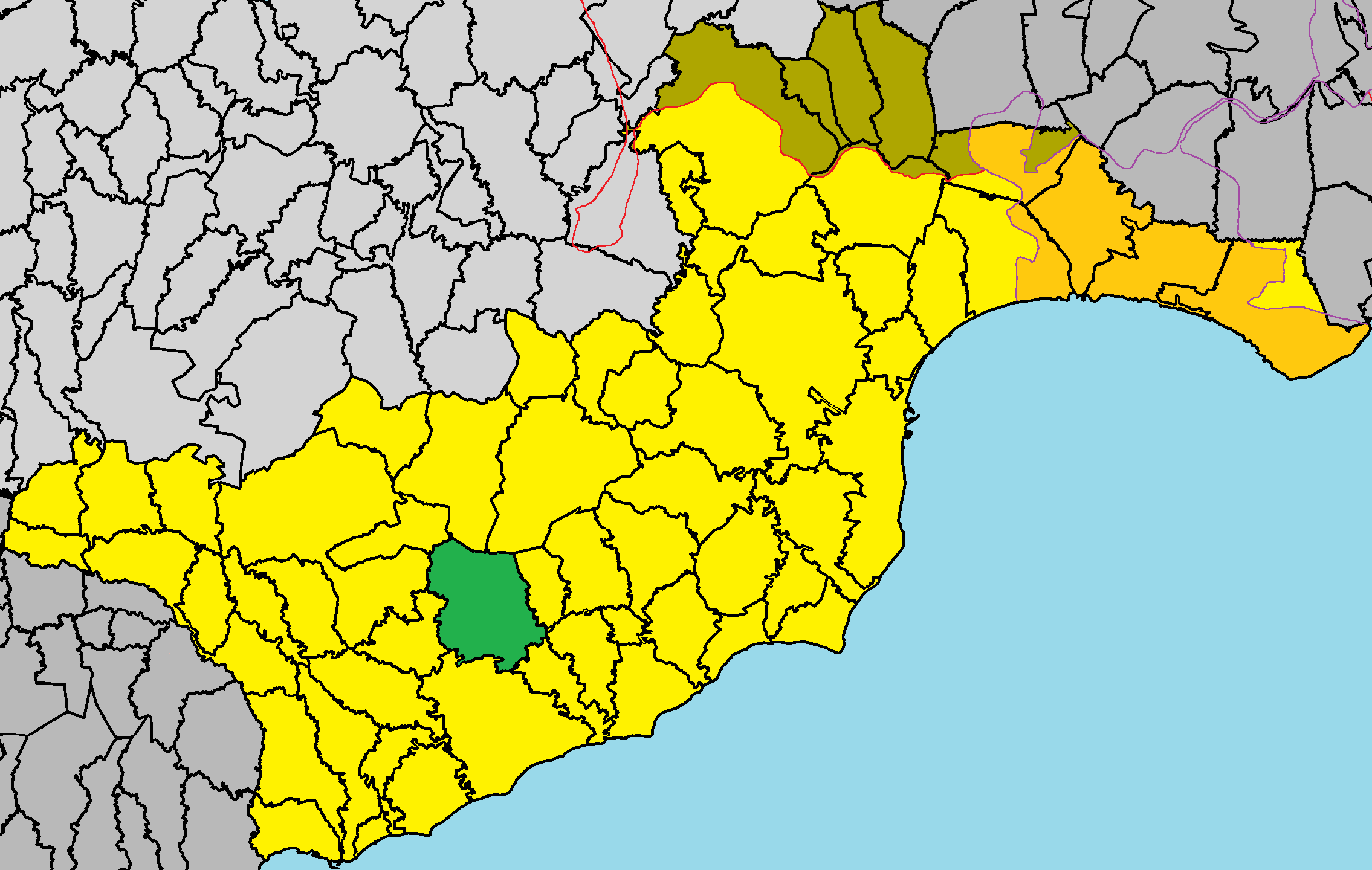 Kofinou in Larnaca District.